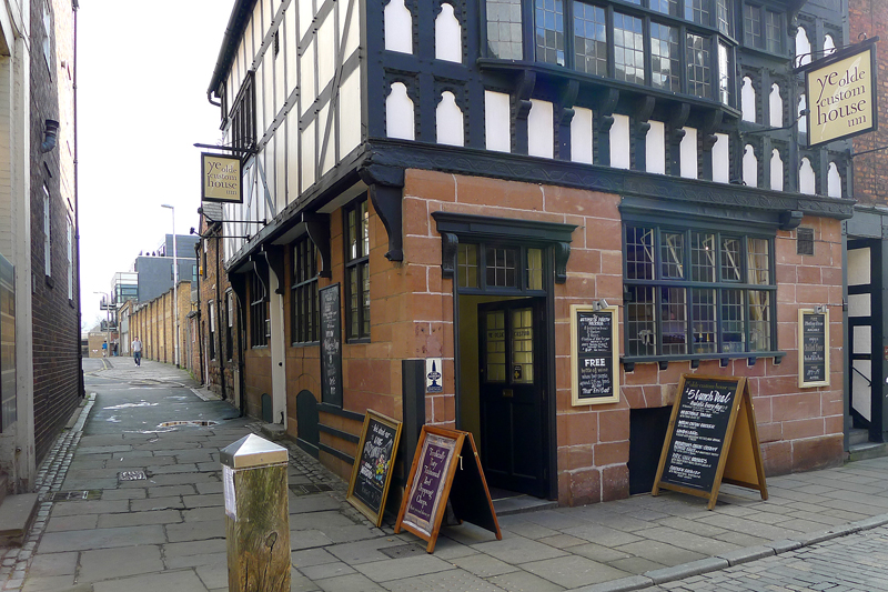 Photograph of the Old Custom House Inn, Chester